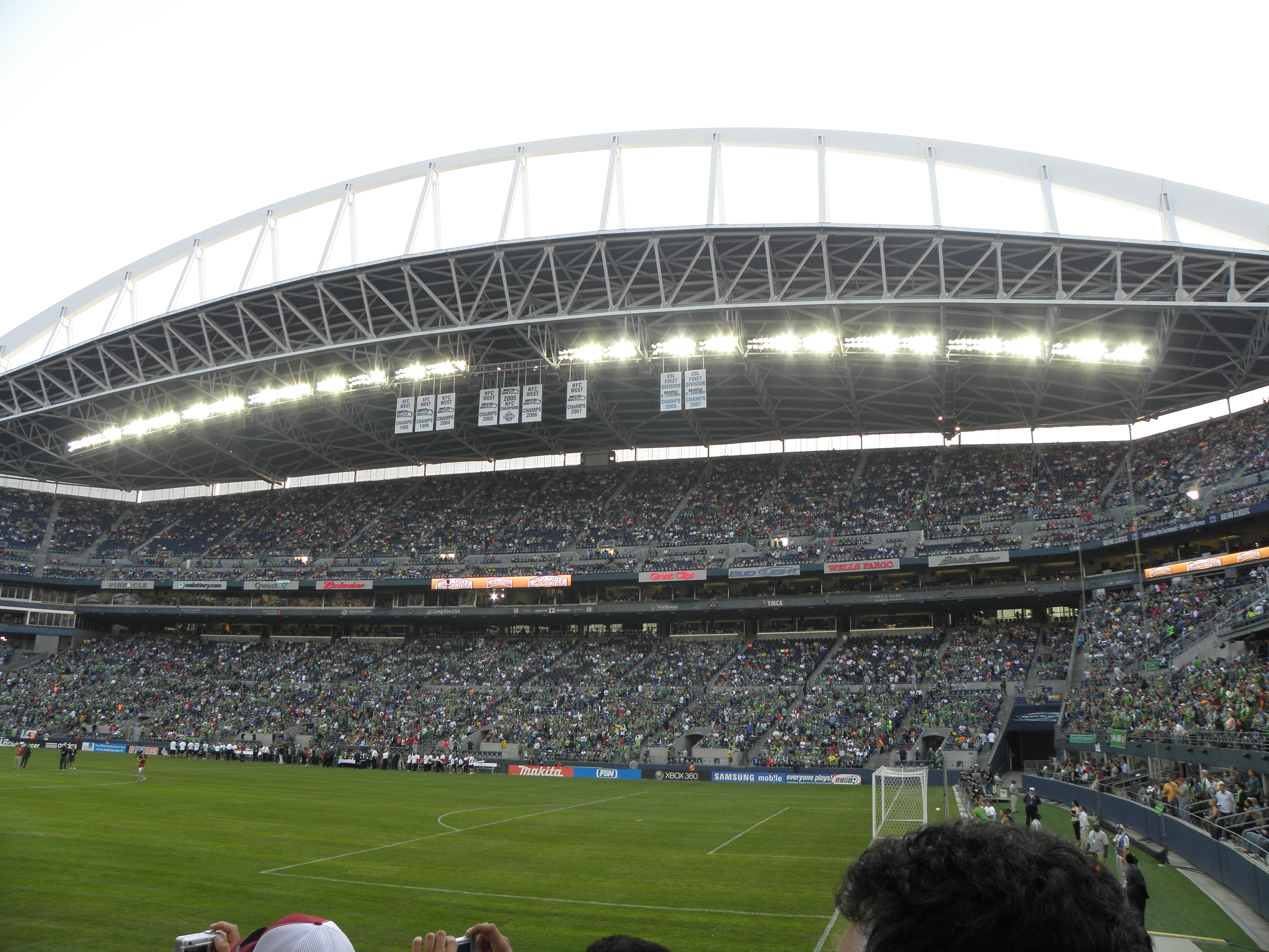 The Seattle Sounders are against FC Barcelona at Qwest Field in Seattle, USA in 08/05/09